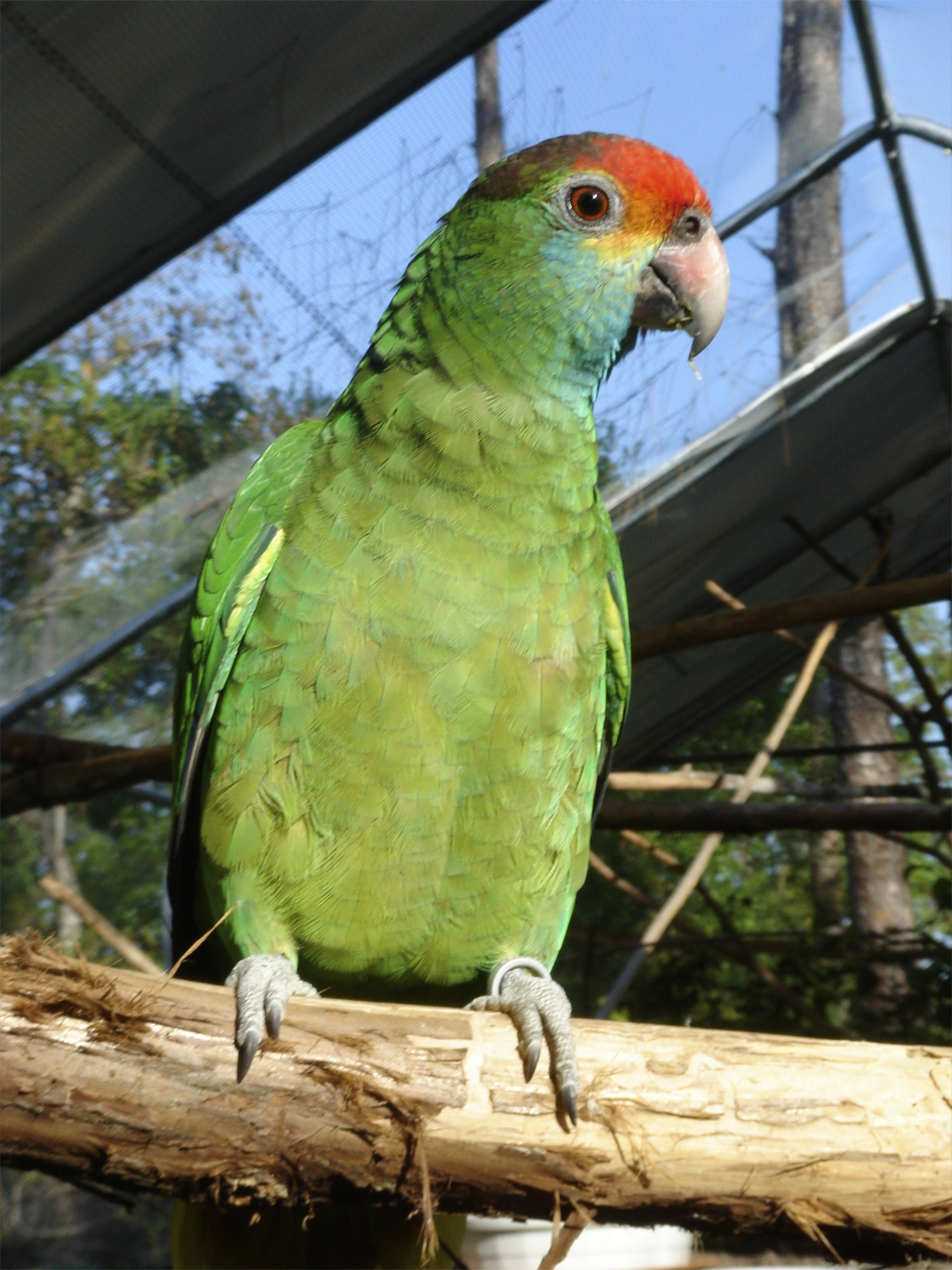 Red-browed Amazon (Amazona rhodocorytha) at Rare Species Conservatory Foundation, USA.